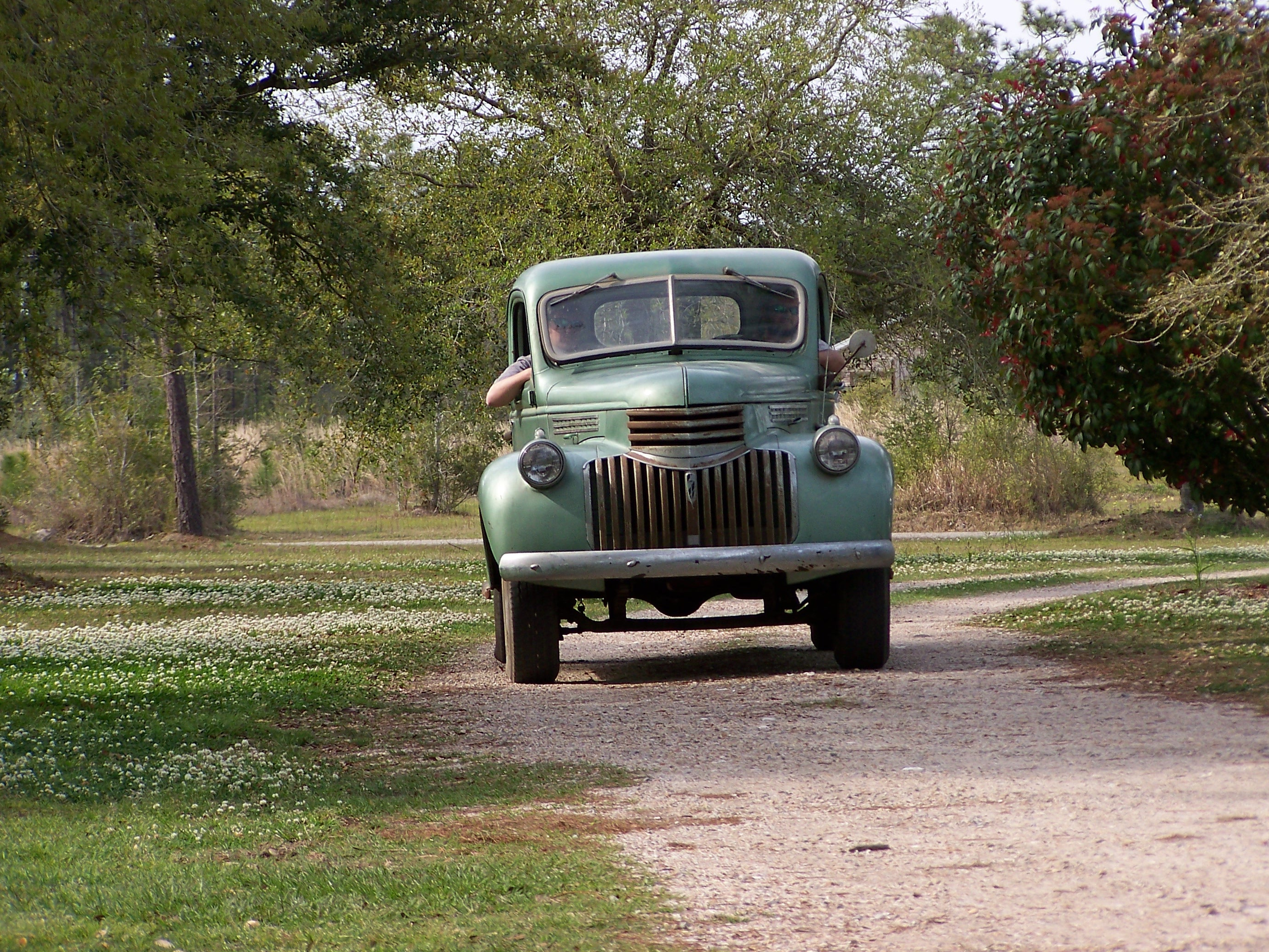 Antique truck in Latimer, MS.